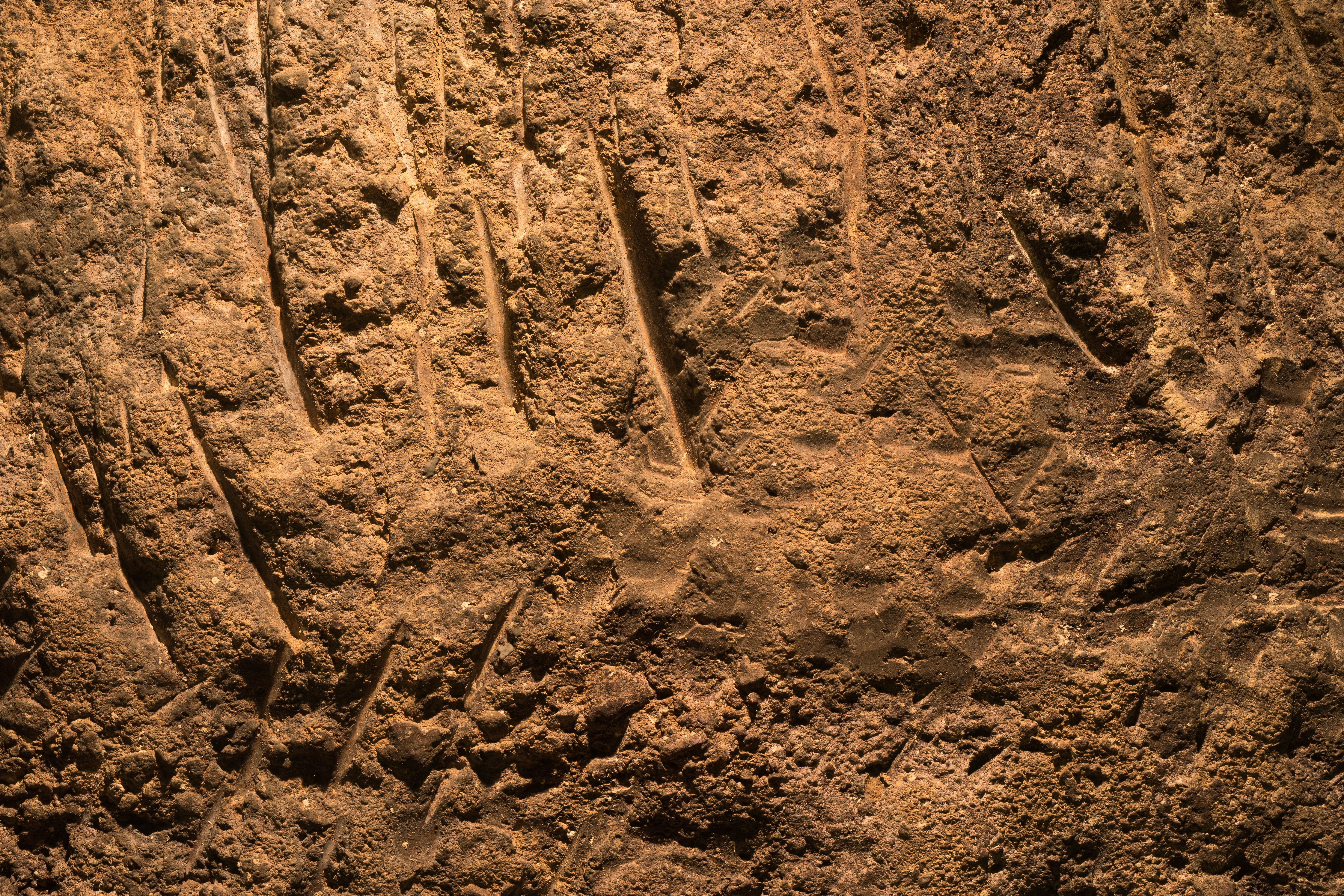 Pick marks created by Chinese workers while building the wine cellar of Schramsberg Vineyards, Napa Valley, California, in the 19th century